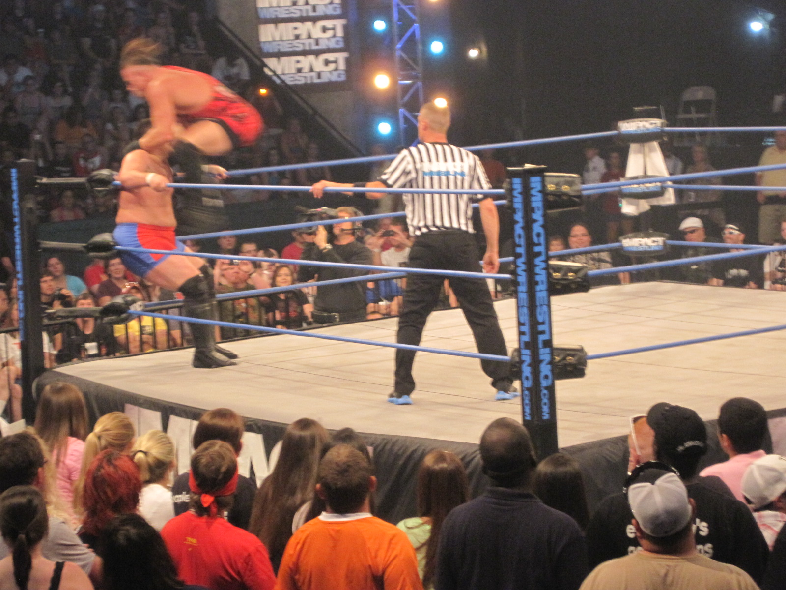 Impact Wrestling Taping. Monday, June 13, 2011 to air Thursday, June 16, 2011